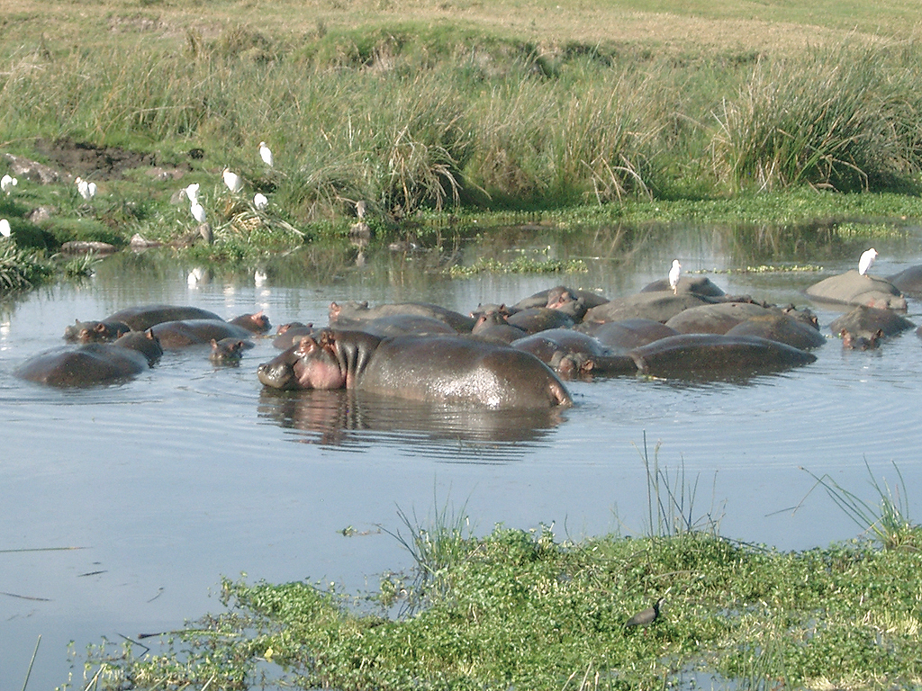 Hippos, Ngorongoro Crater, The Serengeti